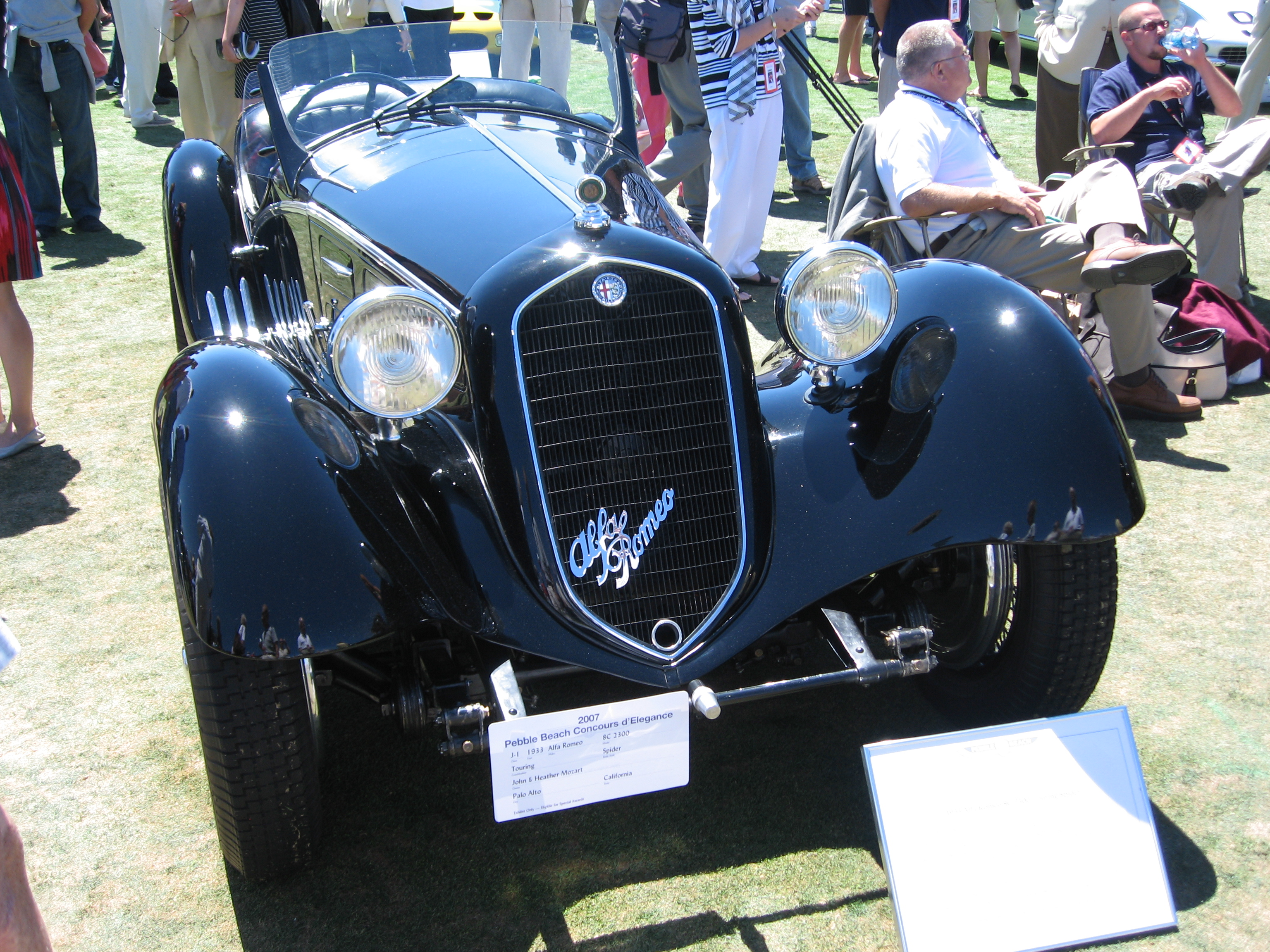 1933 Alfa Romeo 8C 2300 (Touring) Pebble Beach Concours d'Elegance